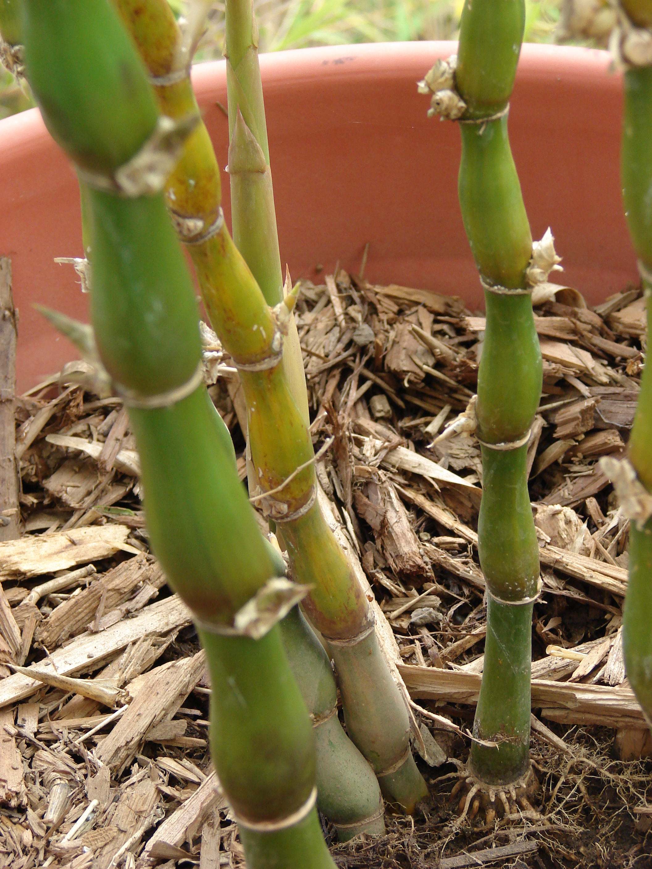 Bambusa ventricosa (stems). Location: Maui, Kula Ace Hardware and Nursery